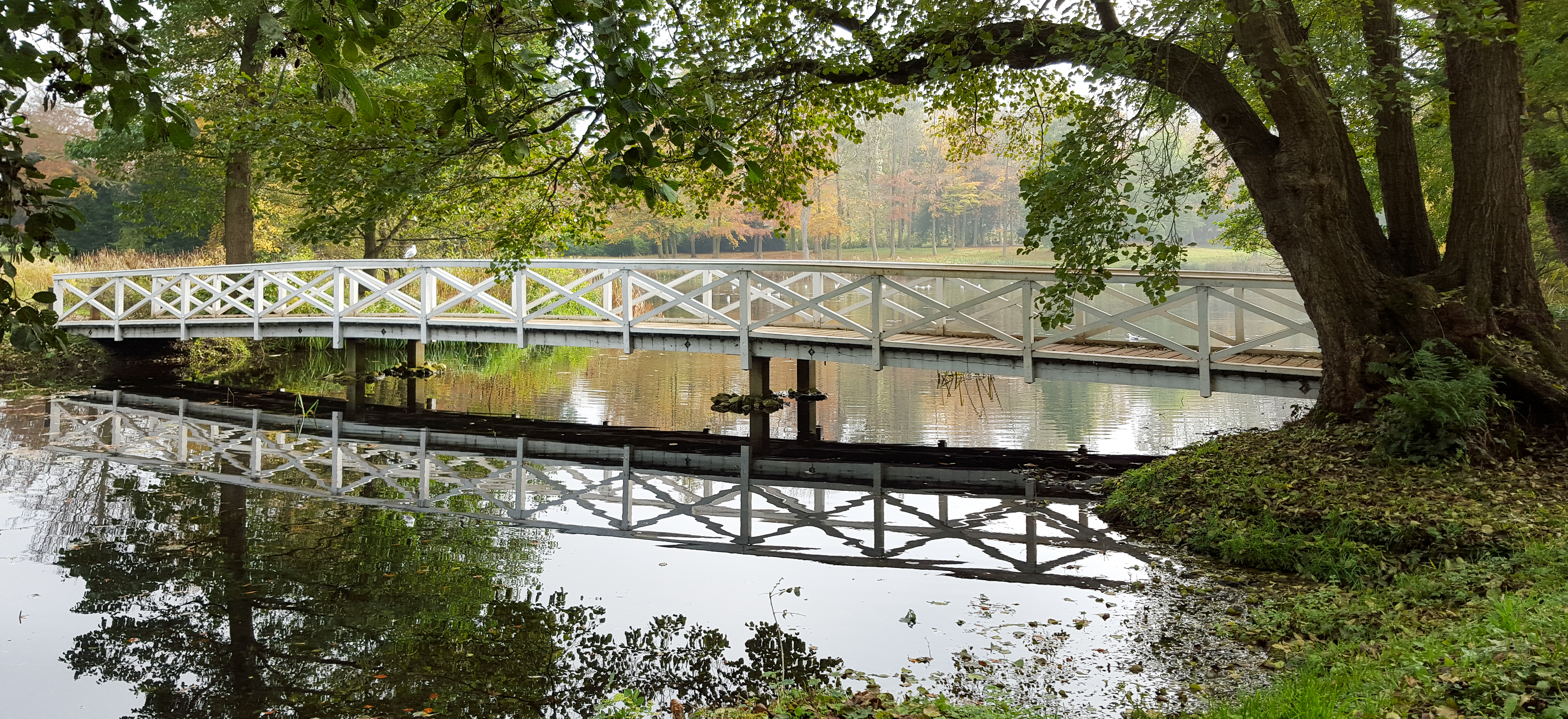 The Wooden Bridge in Stowe Gardens